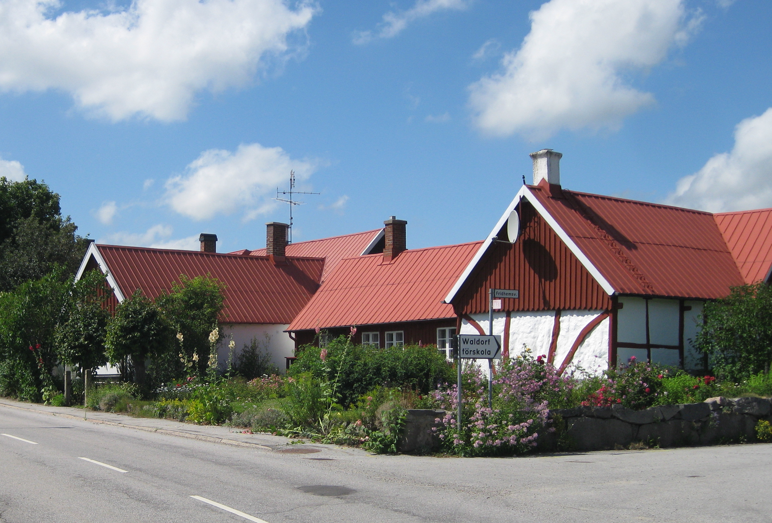 Farm in Rörum, Simrishamn municipality, Scania, Sweden